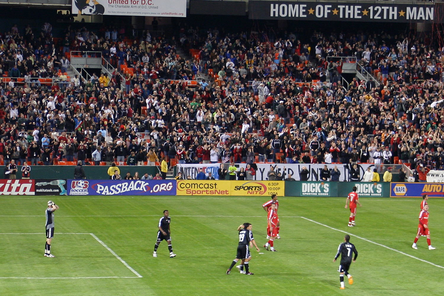 DC United's home opener against TFC: 51 minutes in, the Toronto goalkeeper's mind is shattered when United scores for the third time. And we made sweet wine from the tears of Canada...